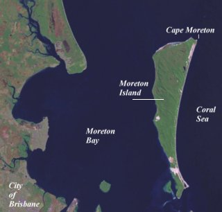 Moreton Island image via Worldwind